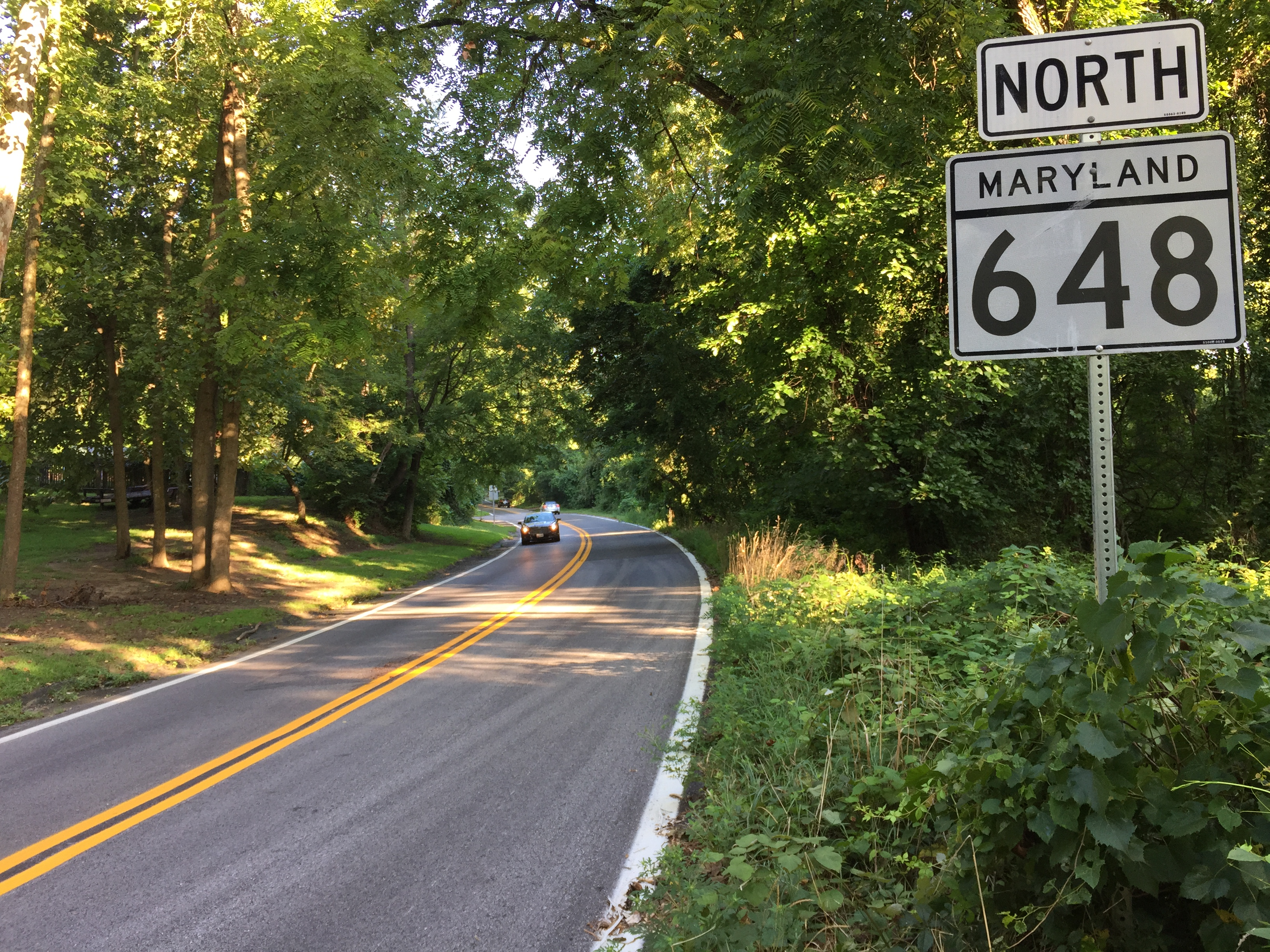 View north along Maryland State Route 648 (Baltimore-Annapolis Boulevard) just north of Maryland State Route 2 (Governor Ritchie Highway) in Arnold, Anne Arundel County, Maryland